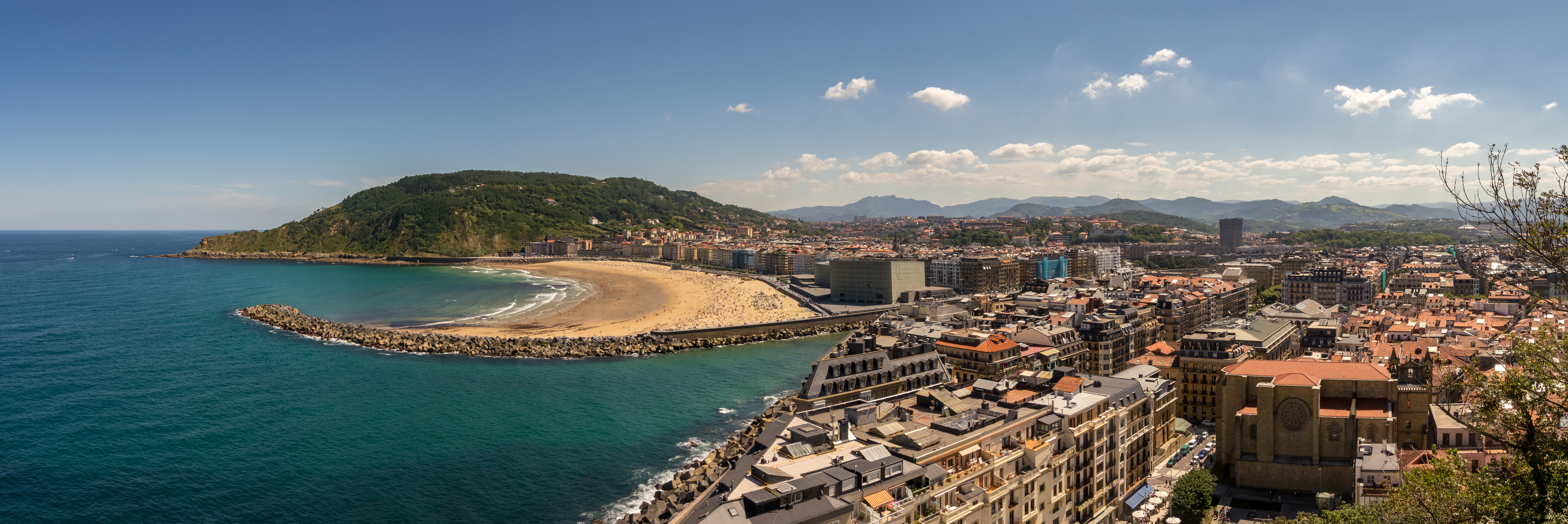 View of San Sebastian with Zurriola Beach and the mouth of the river Urumea